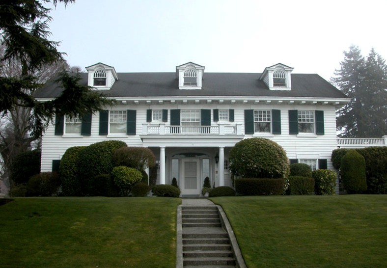 Henry M. Jackson's home. 1703 Grand Avenue, Everett, Washington. Listed on the National Register of Historic Places as the Butler-Jackson House.